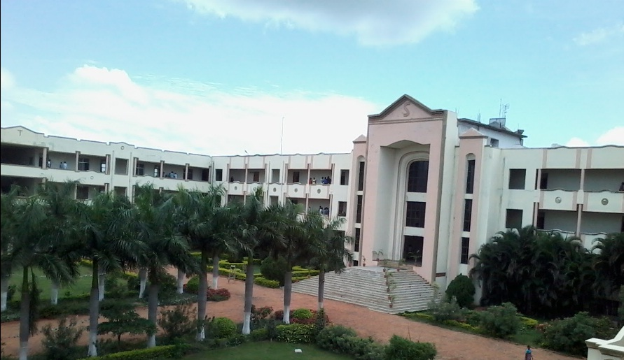 Scient Institute of Technology